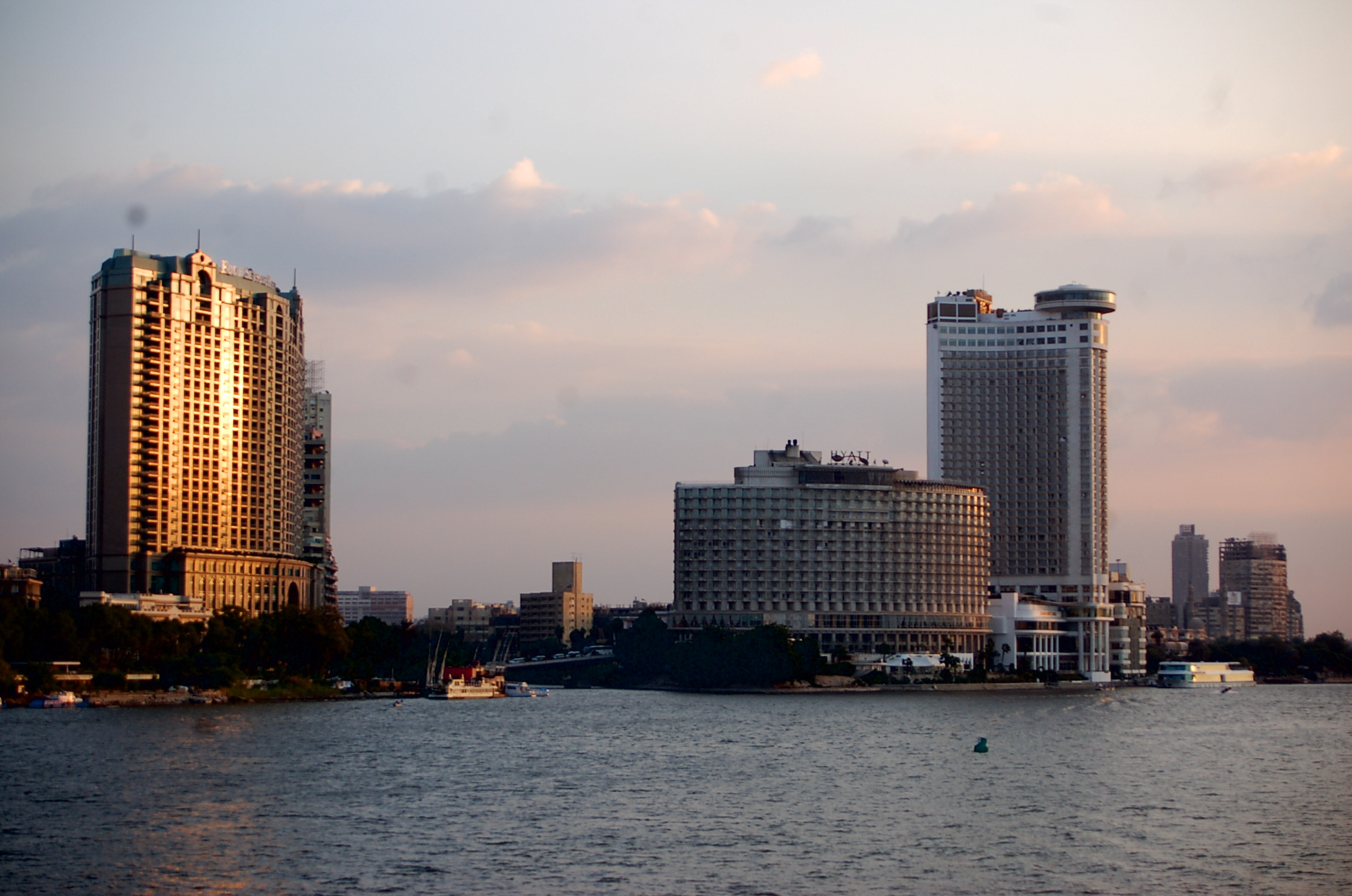 Hotel towers along the Nile.